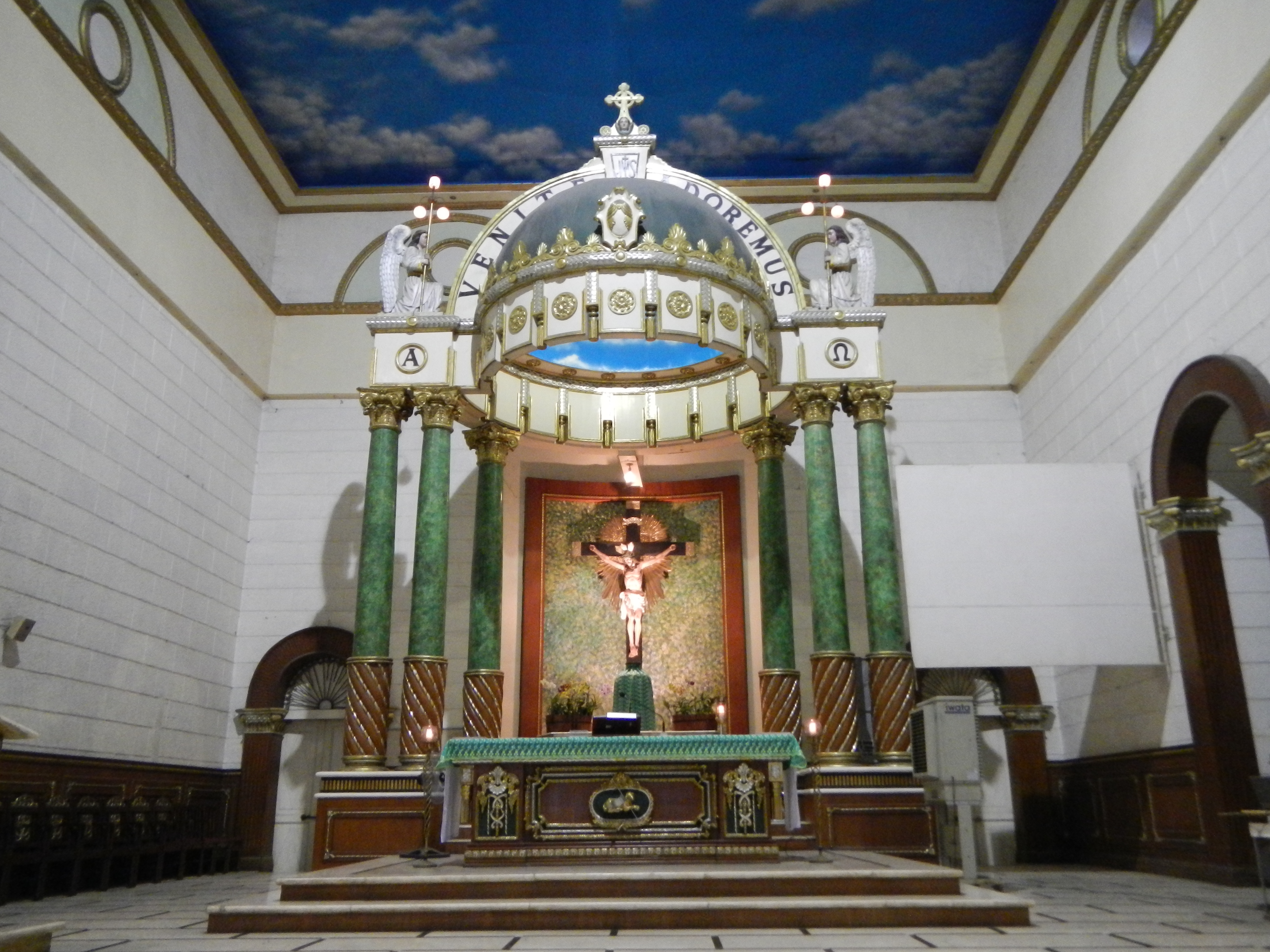 Saint Agustin of Hippo Parish Church[1][2][3]Baliuag, Bulacan